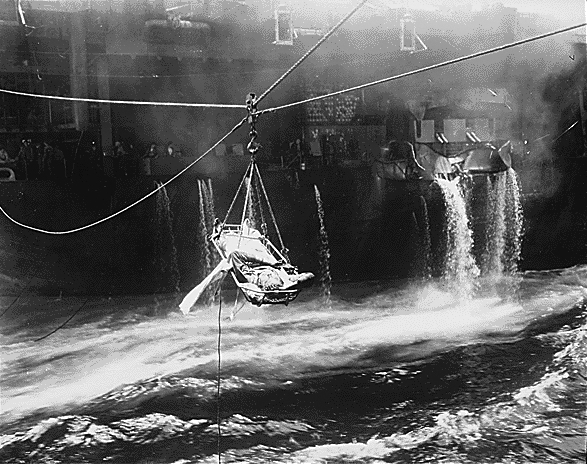 Transfer of wounded from the U.S. Navy aircraft carrier USS Bunker Hill (CV-17) to the light cruiser USS Wilkes-Barre (CL-103) on 11 May 1945. The sailors were injured during the fire aboard the carrier following a Japanese suicide dive bombing attack off Okinawa on 5 May 1945.